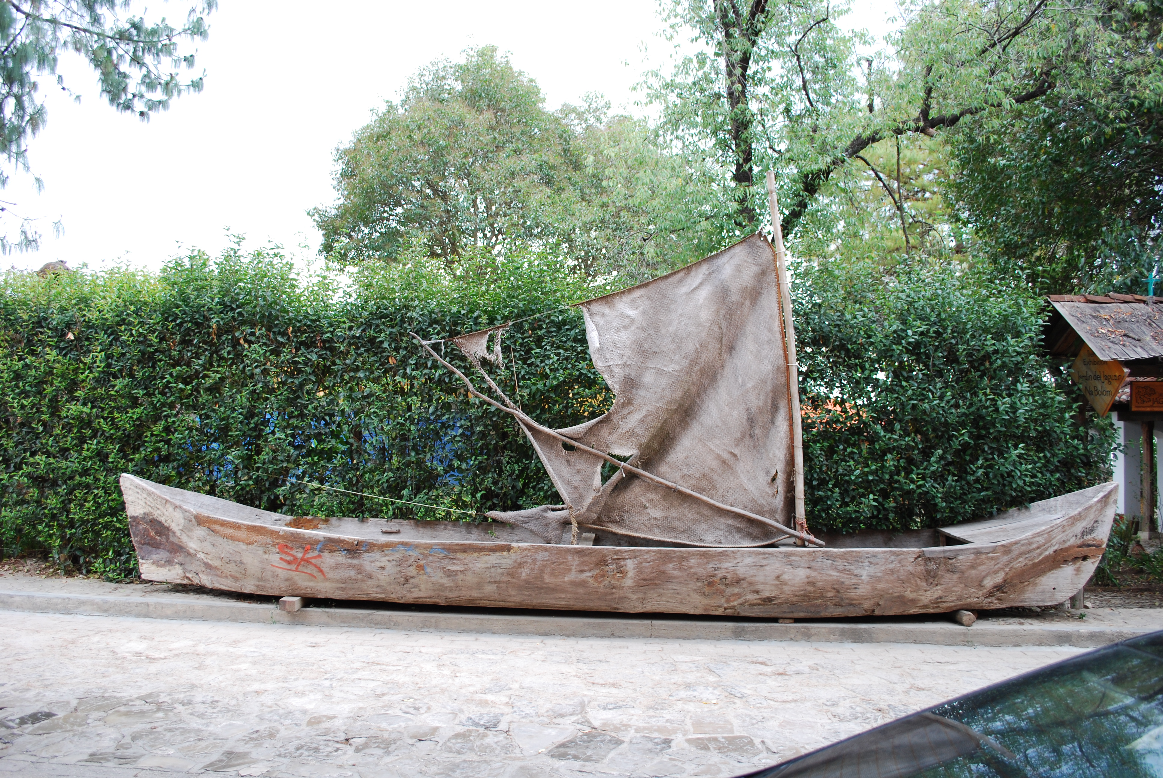 Lacandon boat in front of the Casa Na Bolom Museum in San Cristobal de las Casas, Chiapas, Mexico